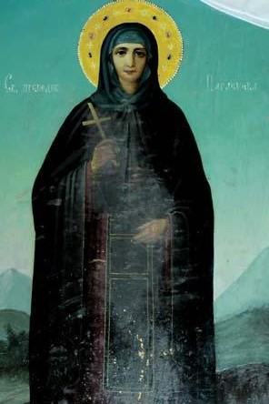 Saint Petka Icon in St. Petka Church in Rusinovo